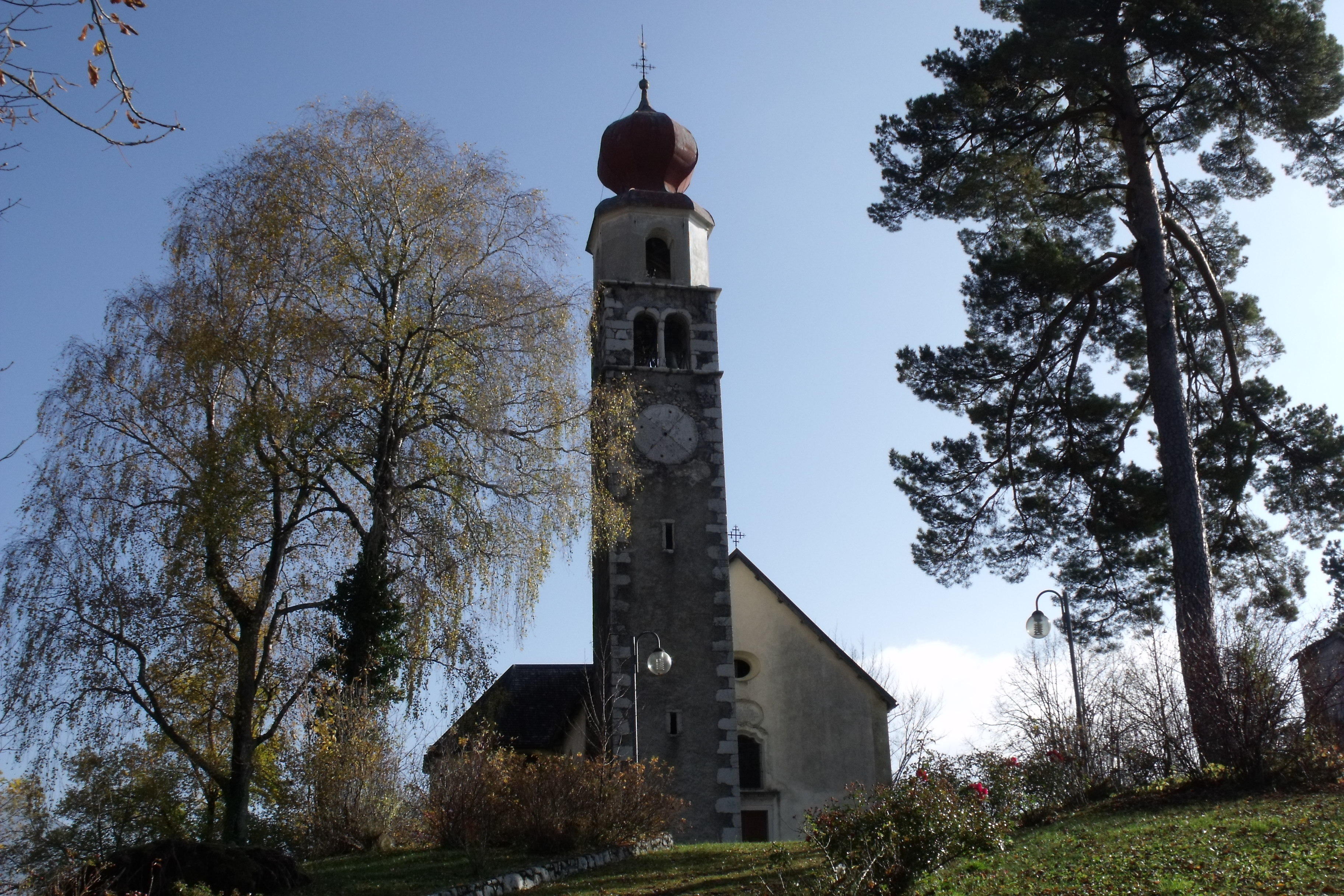 Church of San Sebastiano in Pieve Tesino, Province of Trento (Trentino), Italy